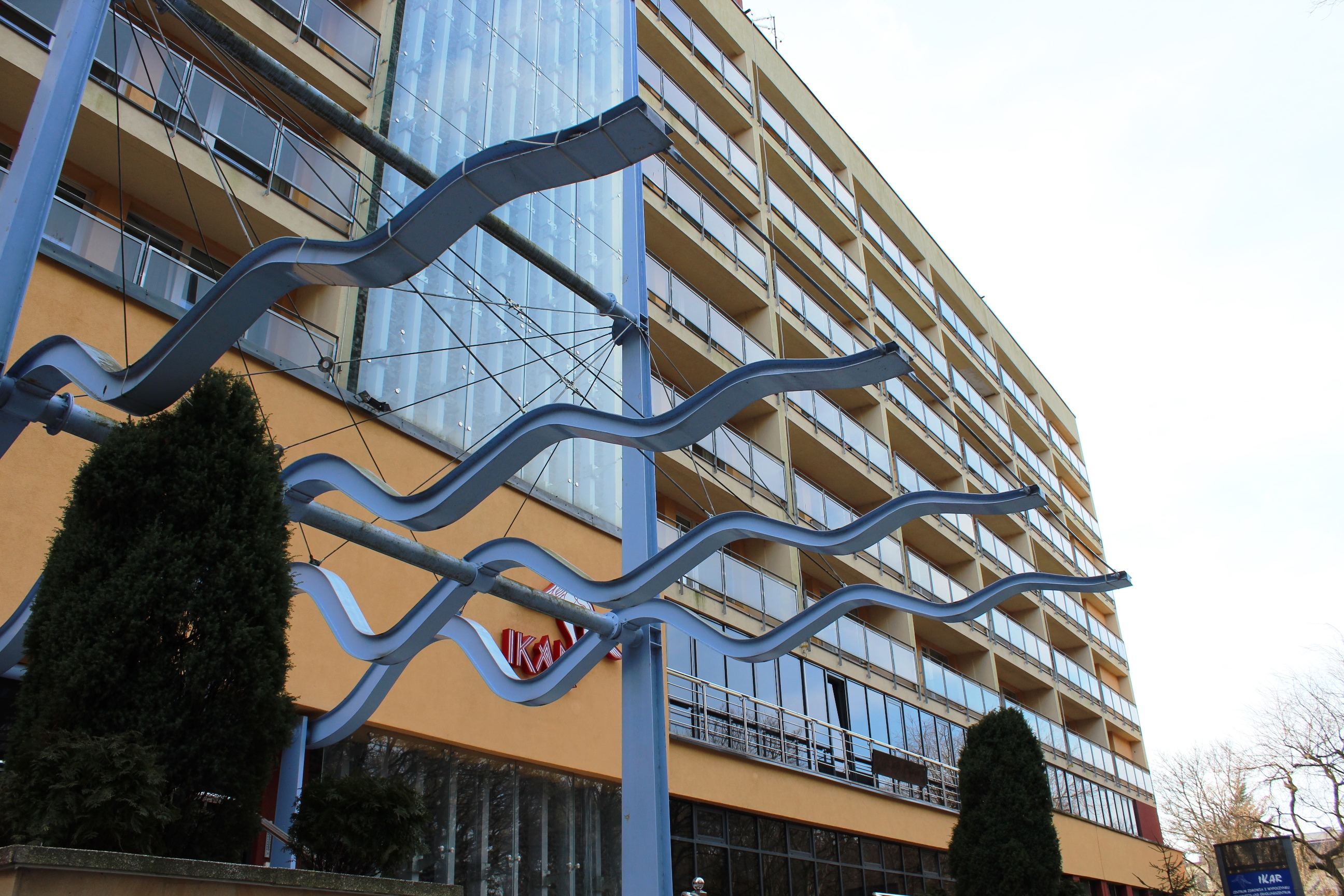 Ikar Sanatorium in Kołobrzeg